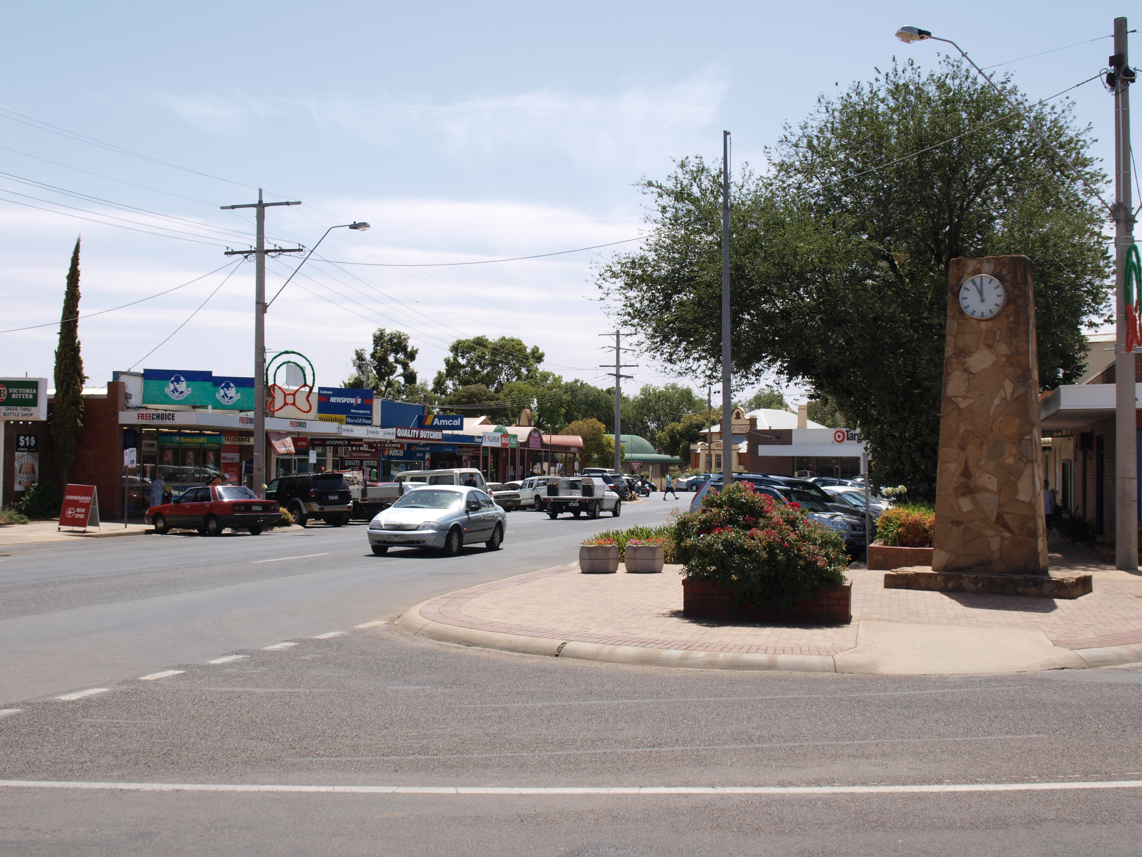 Punt Road, Cobram, looking east.